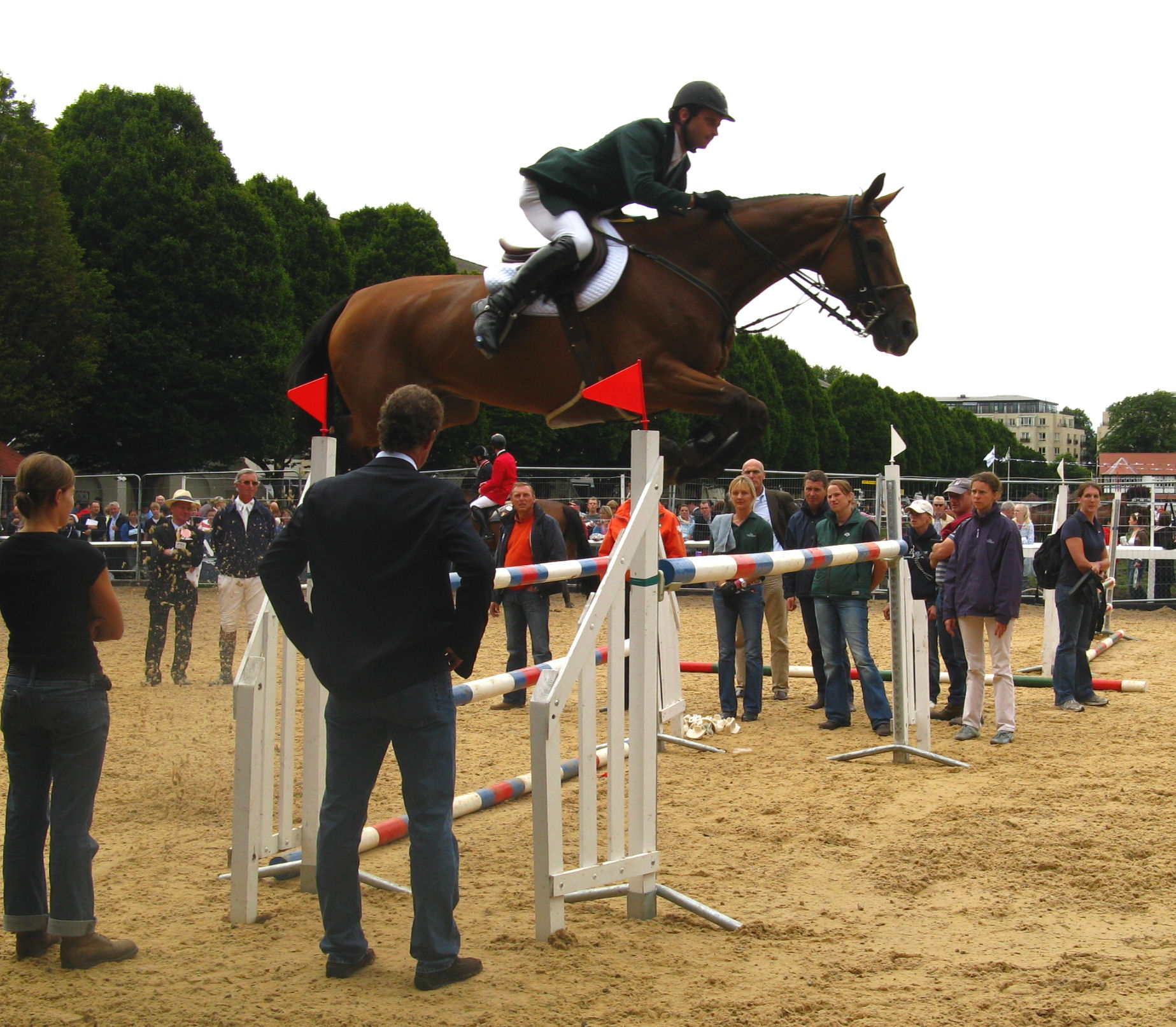 Denis Lynch and Nabab’s Son, in the main practise arena at the Dublin Horse Show, Ireland. Samsung Aga Khan Nations Cup 5* Superleague 1m55 €156,000